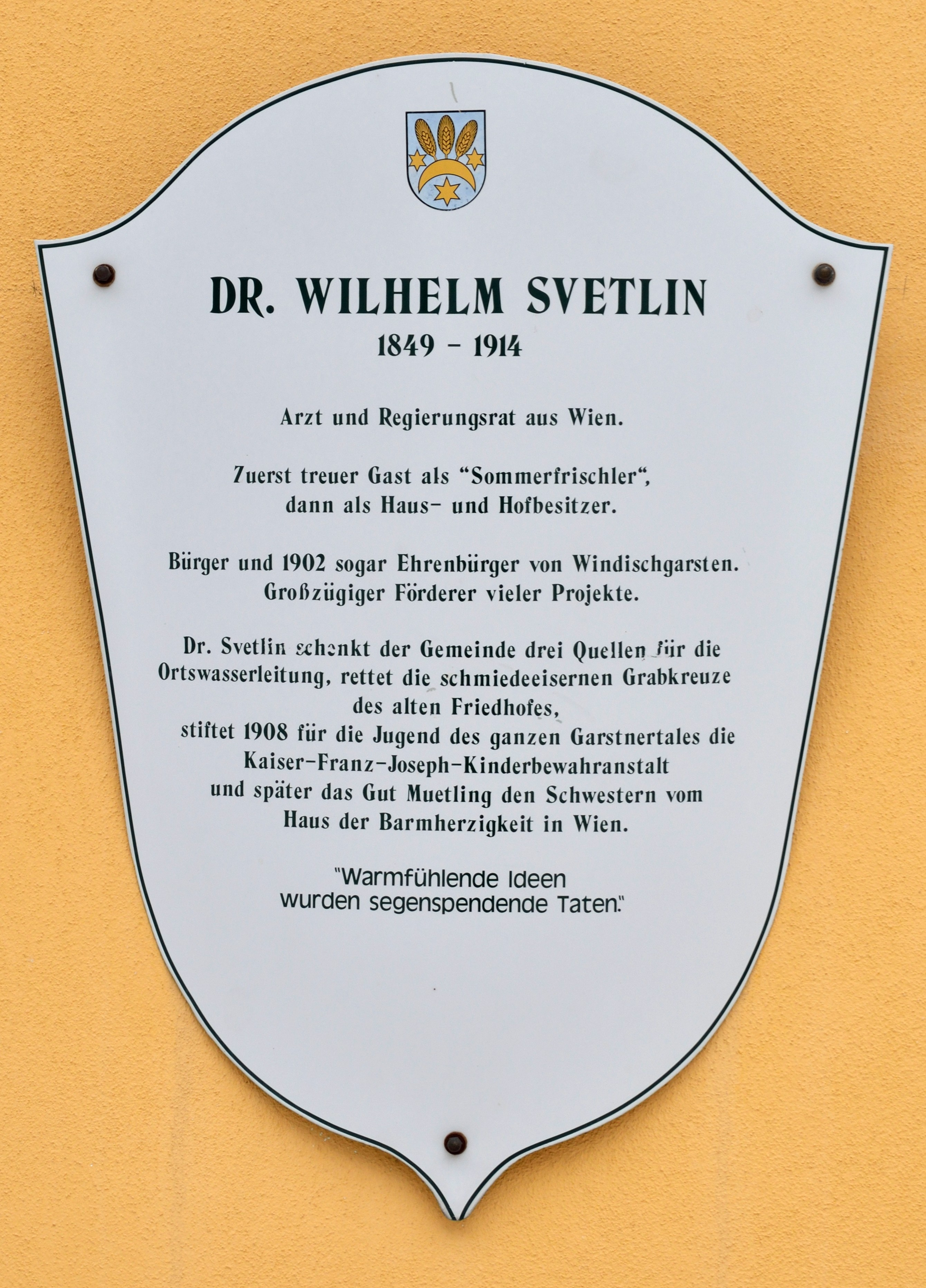 Commemorative plaque for Wilhelm Svetlin 1849-1914, physician, politician and benefactor for Windischgarsten, at the back side of the district court house in Windischgarsten, Upper Austria.